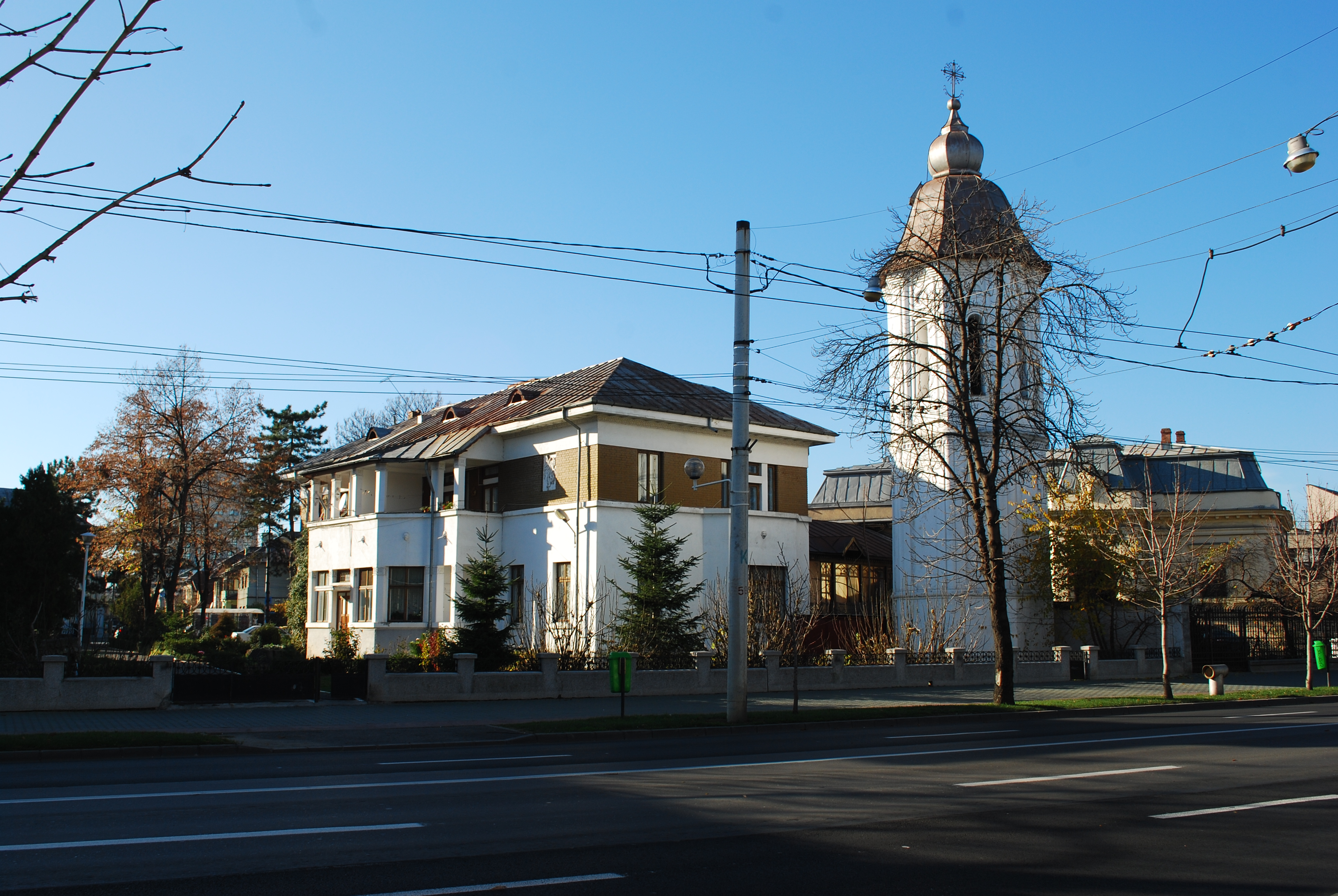 Belfry of the St. George church in Ploieşti, RomaniaRomână: Turnul clopotniţă al bisericii "Sf. Gheorghe"-Vechi din Ploieşti, România